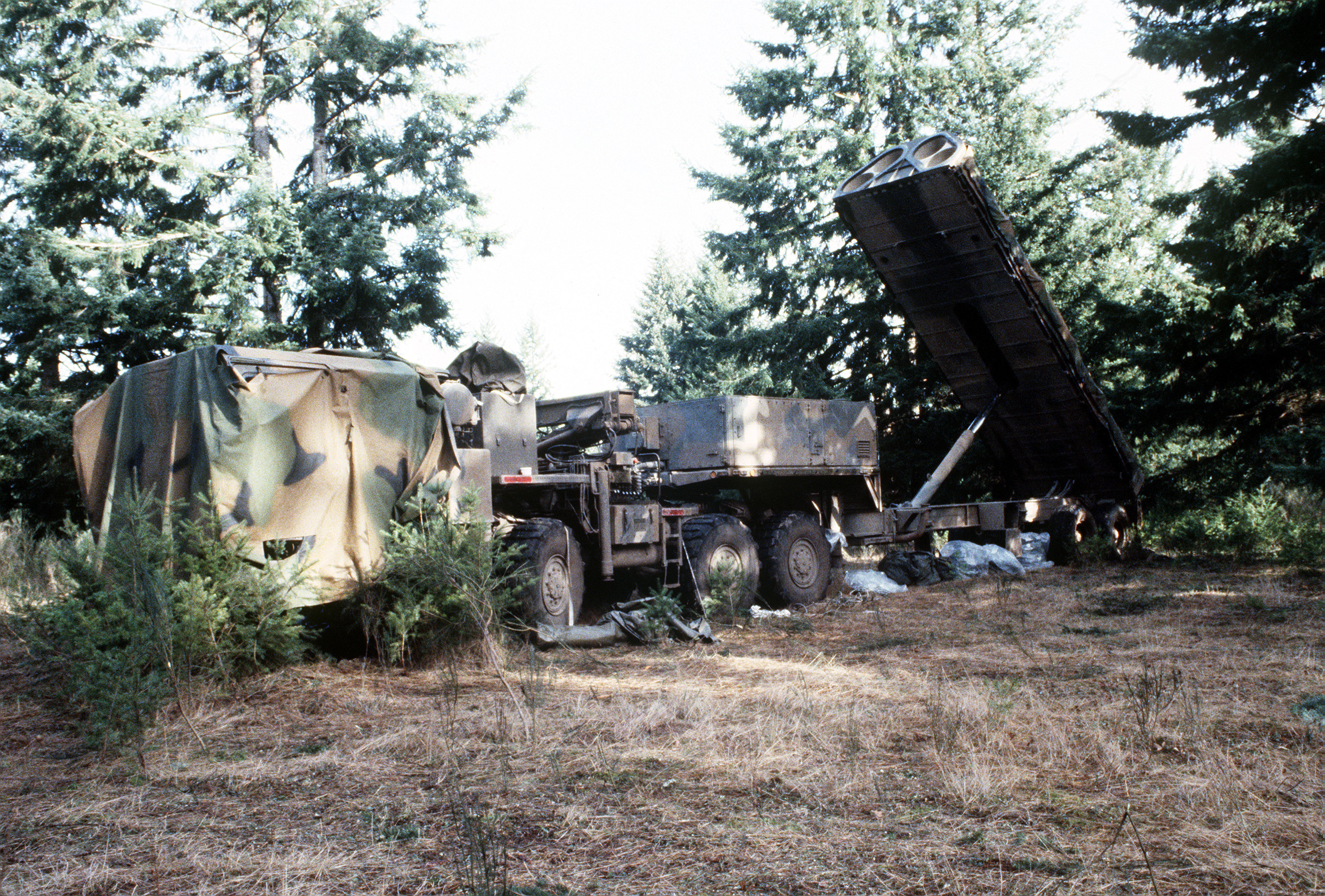 A launching unit for BGM-109G Gryphon missiles